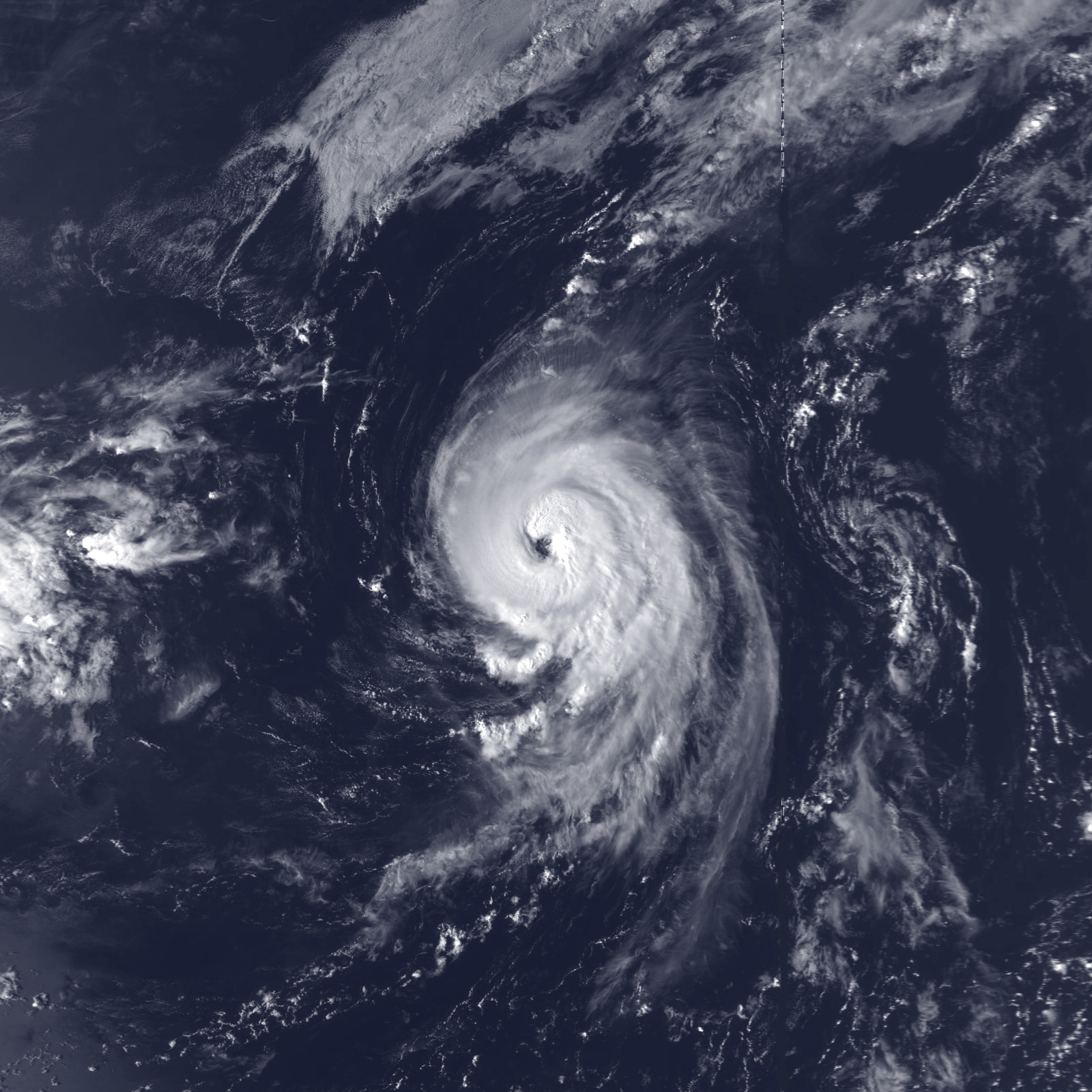 Hurricane Bonnie at peak intensity southeast of Nova Scotia on September 21, 1992